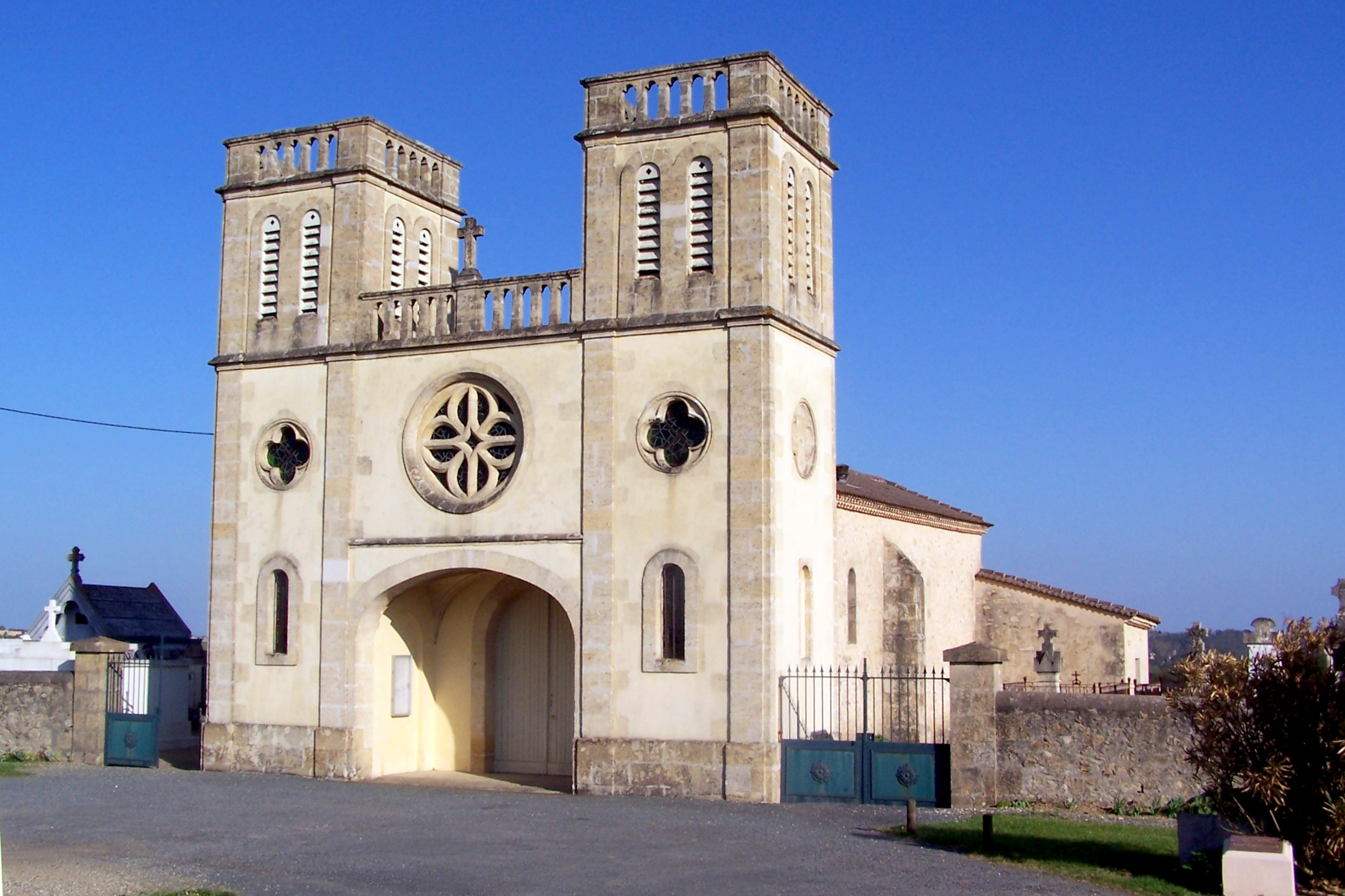 Church Saint-Martin of Semens (Gironde, France)